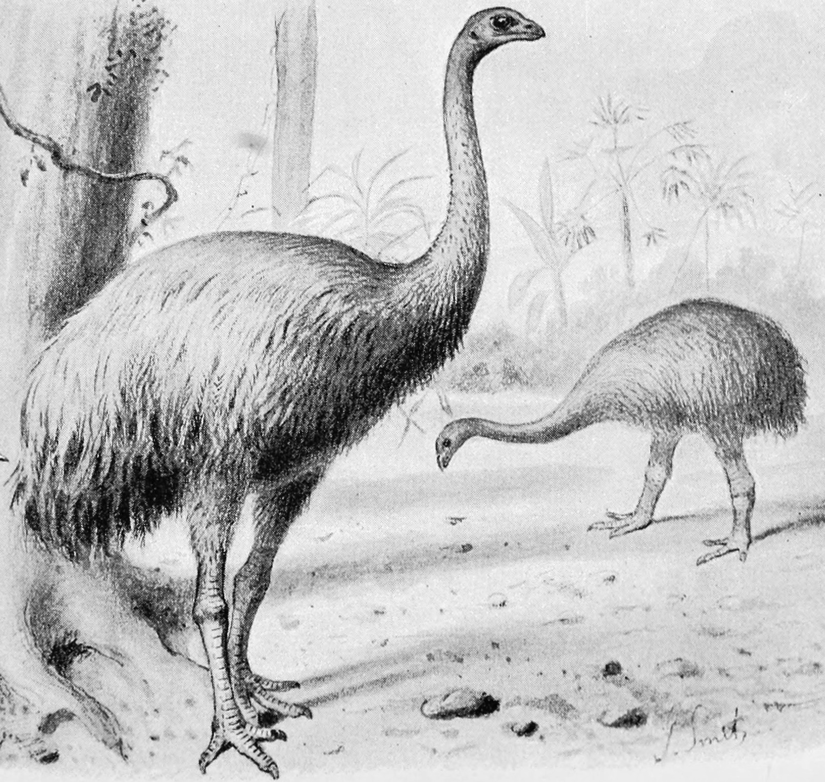 South Island Giant Moa, Dinornis robustus (forground) and Pachyornis elephantopus (background).